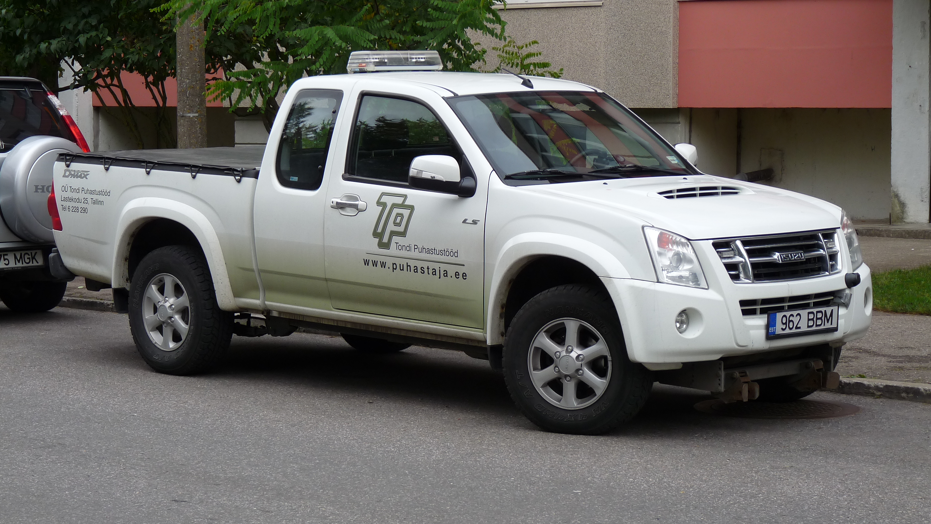 Isuzu vehicle in Tallinn, Estonia